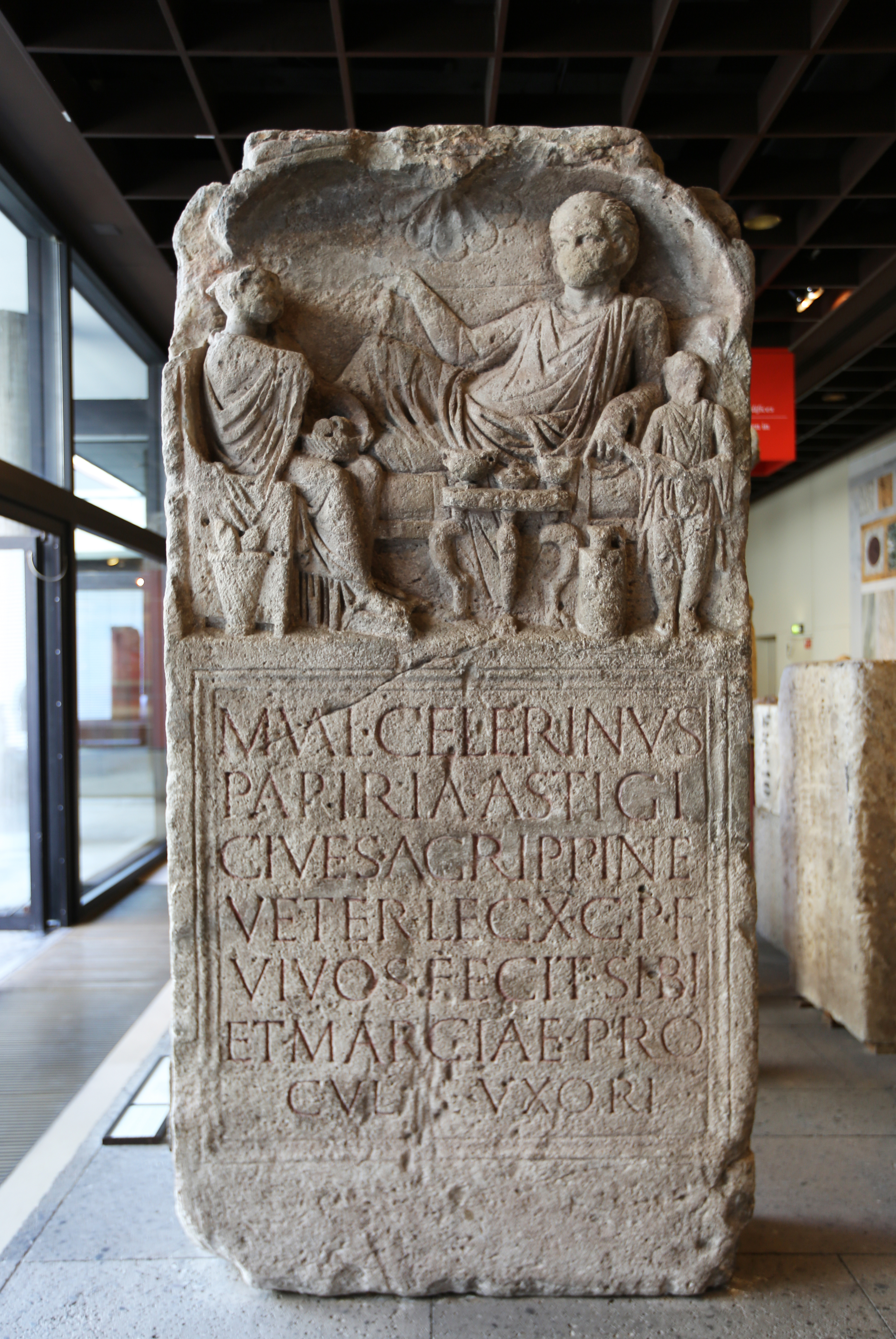 Tombstone of Valerius Celerinus, citizen of Cologne, born in Astigi (Spain) and retired soldier of the Xth Legion